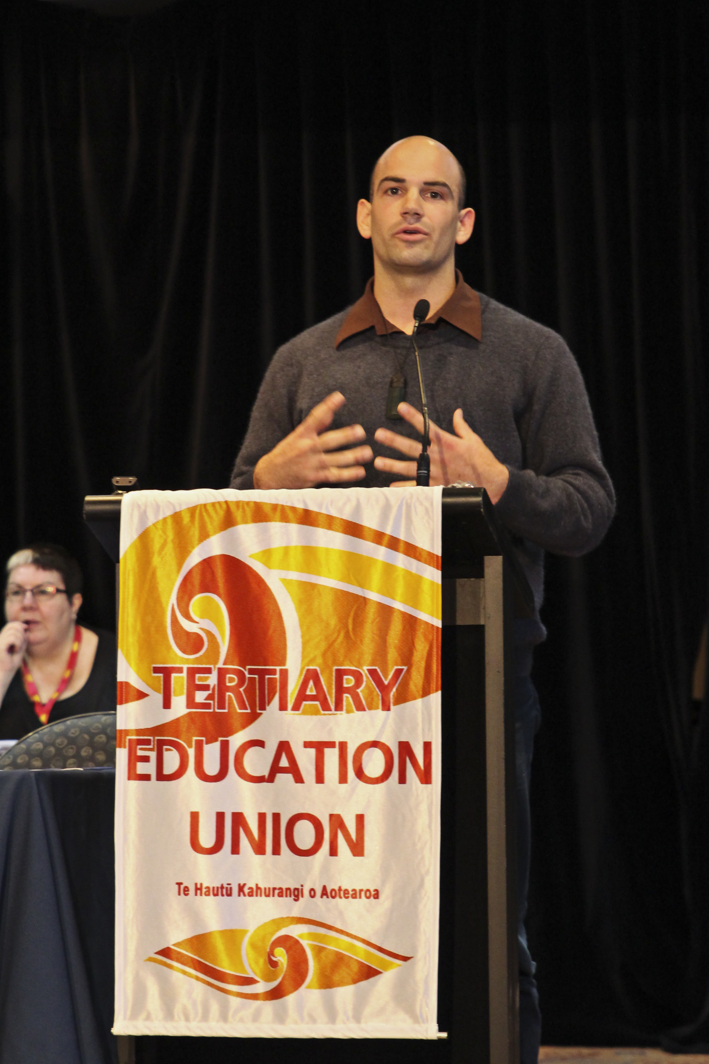 TEU Annual Conference 2013